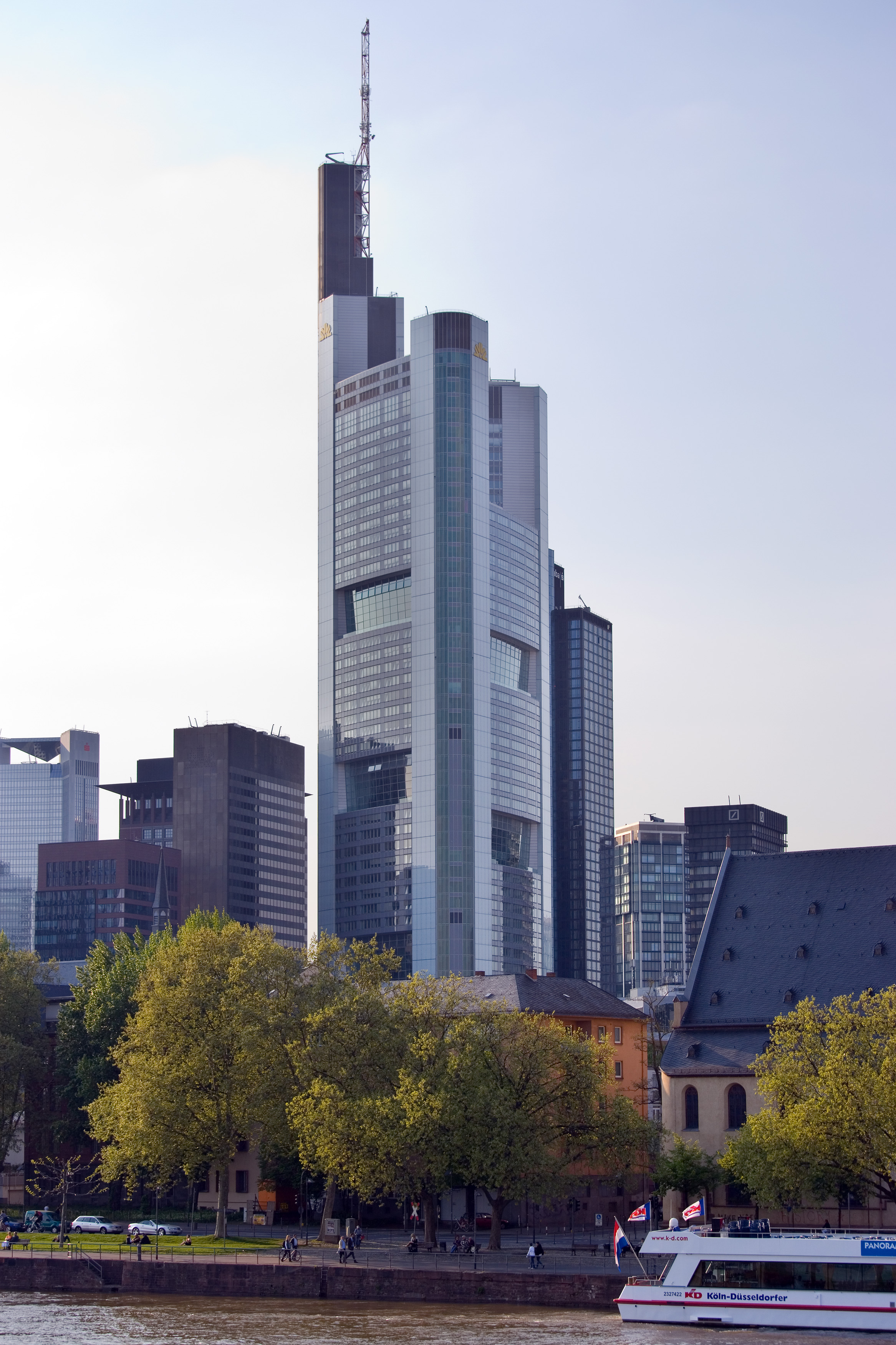 Frankfurt on the Main: Commerzbank Tower as seen from the Eiserner Steg (Iron Bridge)